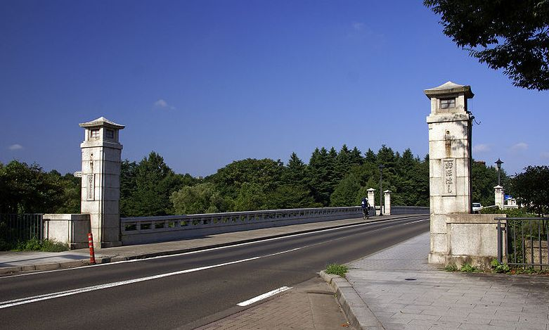 Hirose River at Sendai, Miyagi prefecture, Japan